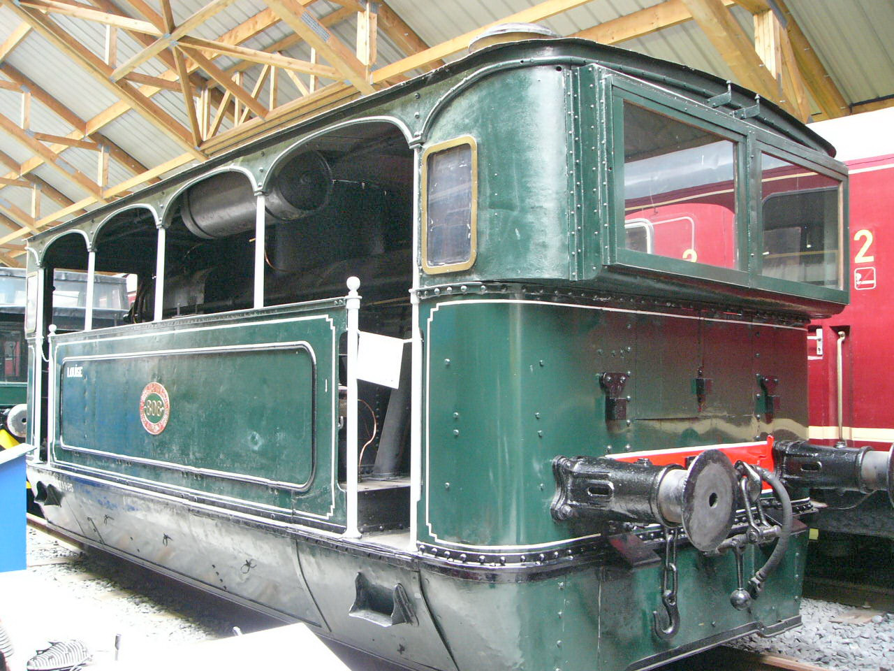 "Bi-Cabine" locomotive 808 at the Treignes Railway Museum, part of the Chemin de fer à Vapeur des Trois Vallées.